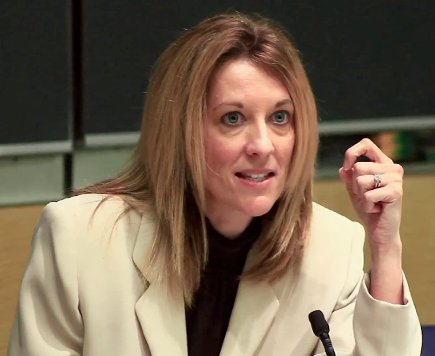 U.S. economist Stephanie Kelton at a 2012 seminar at Columbia University.